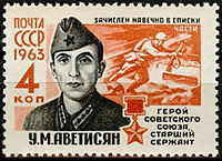 1963 postage stamp of the USSR: Hunan Avetisyan.